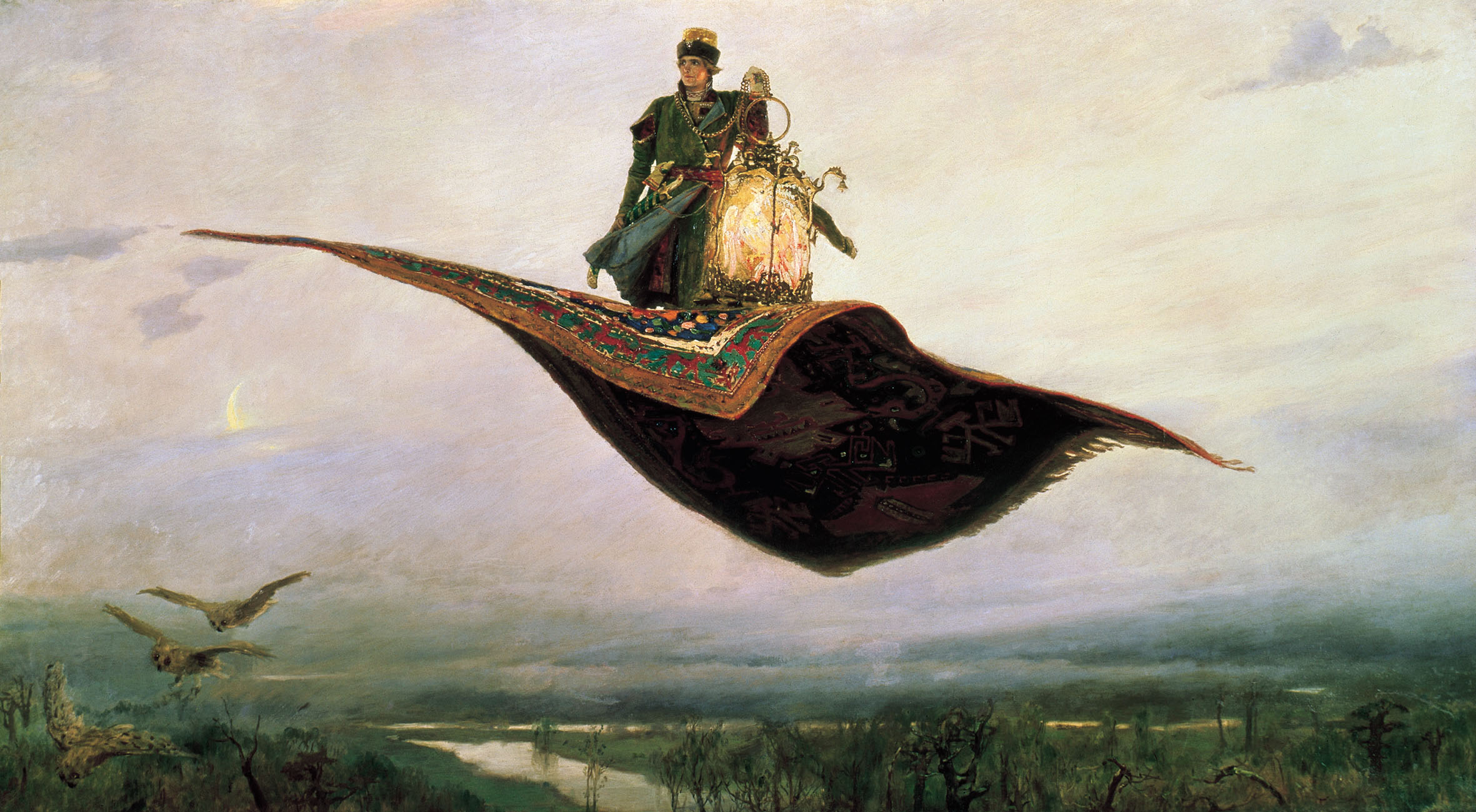 The Flying Carpet, a depiction of the hero of Russian folklore, Ivan Tsarevich